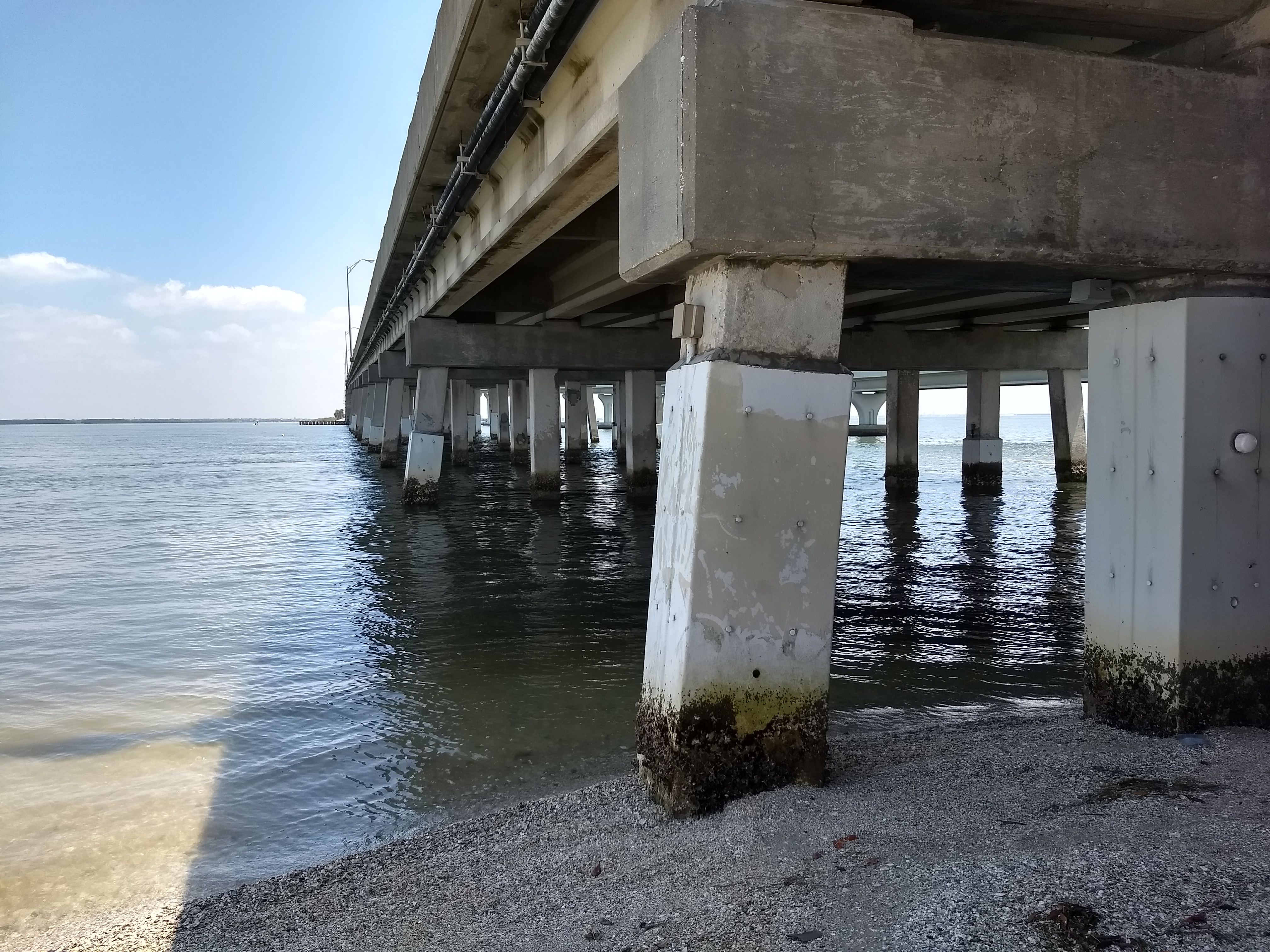 View from the shore of the western end of the main span of the Courtney Campbell Causeway. Metal pile jackets can be seen encasing many of the bridge's pilings.